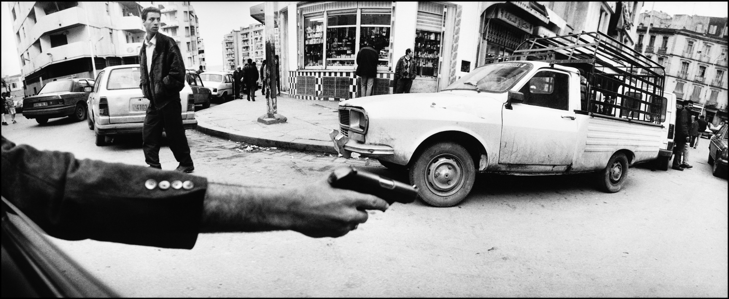 Bab el Oued, Alger, 1997. Panique d'un policier en civil dont la voiture banalisée est prise dans les embouteillages du quartier de Bab el Oued, à Alger : l'arme au poing, il tente de se frayer un chemin. A plaincolthes policeman panics in the dense traffic of Bab el oued, a working-class erea of Algiers. With his gun in hand, the policeman tries to force his way out of the traffic jam in his unmarked car, to the indifference of a passerby.